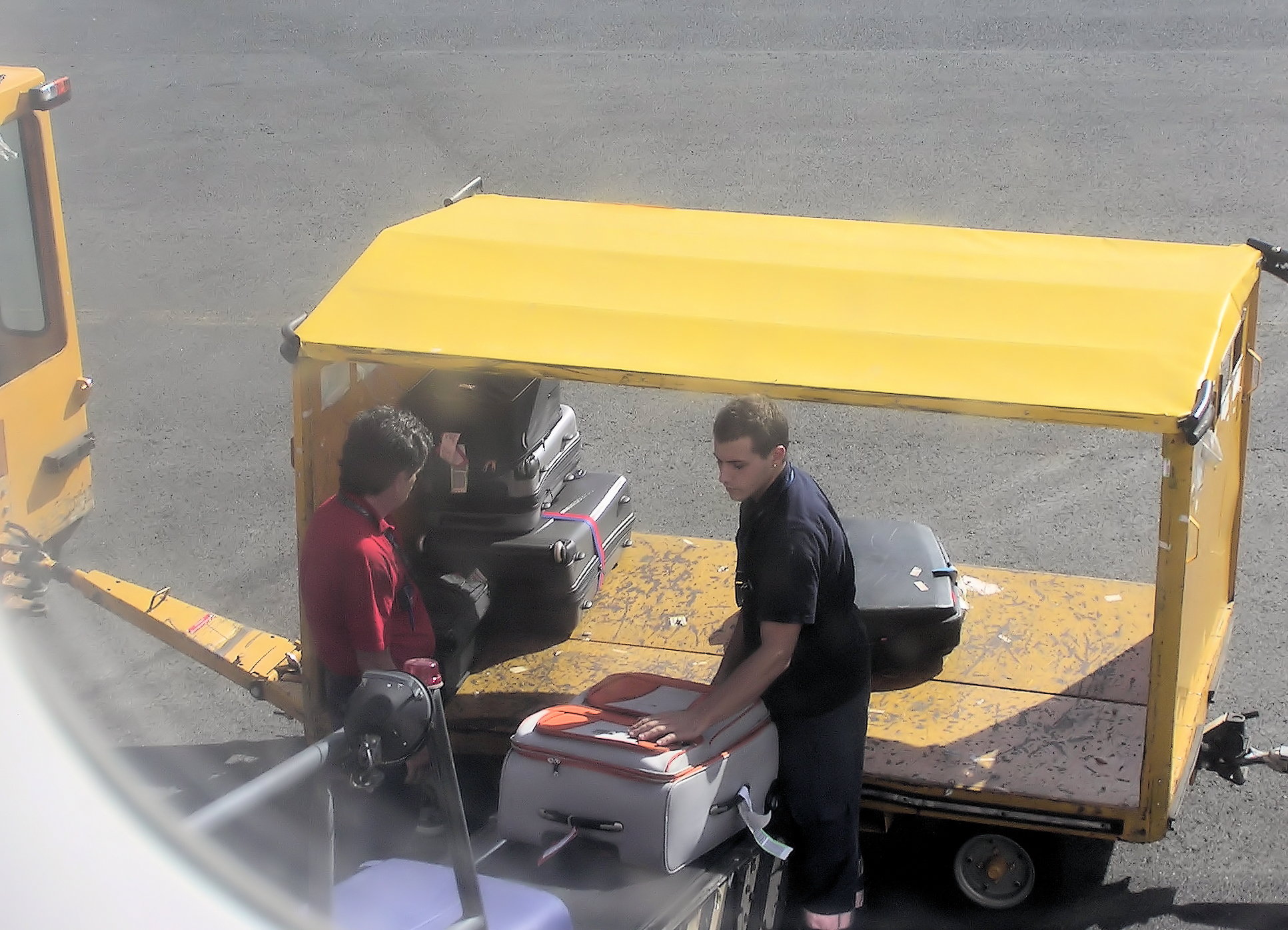 Baggage being loaded onto an Airbus A319 of easyJet in Rome (Italy), destination Bristol (England). Sorry the quality is poor, it was taken through the aircraft window. (That's my suitcase with the red and blue strap).